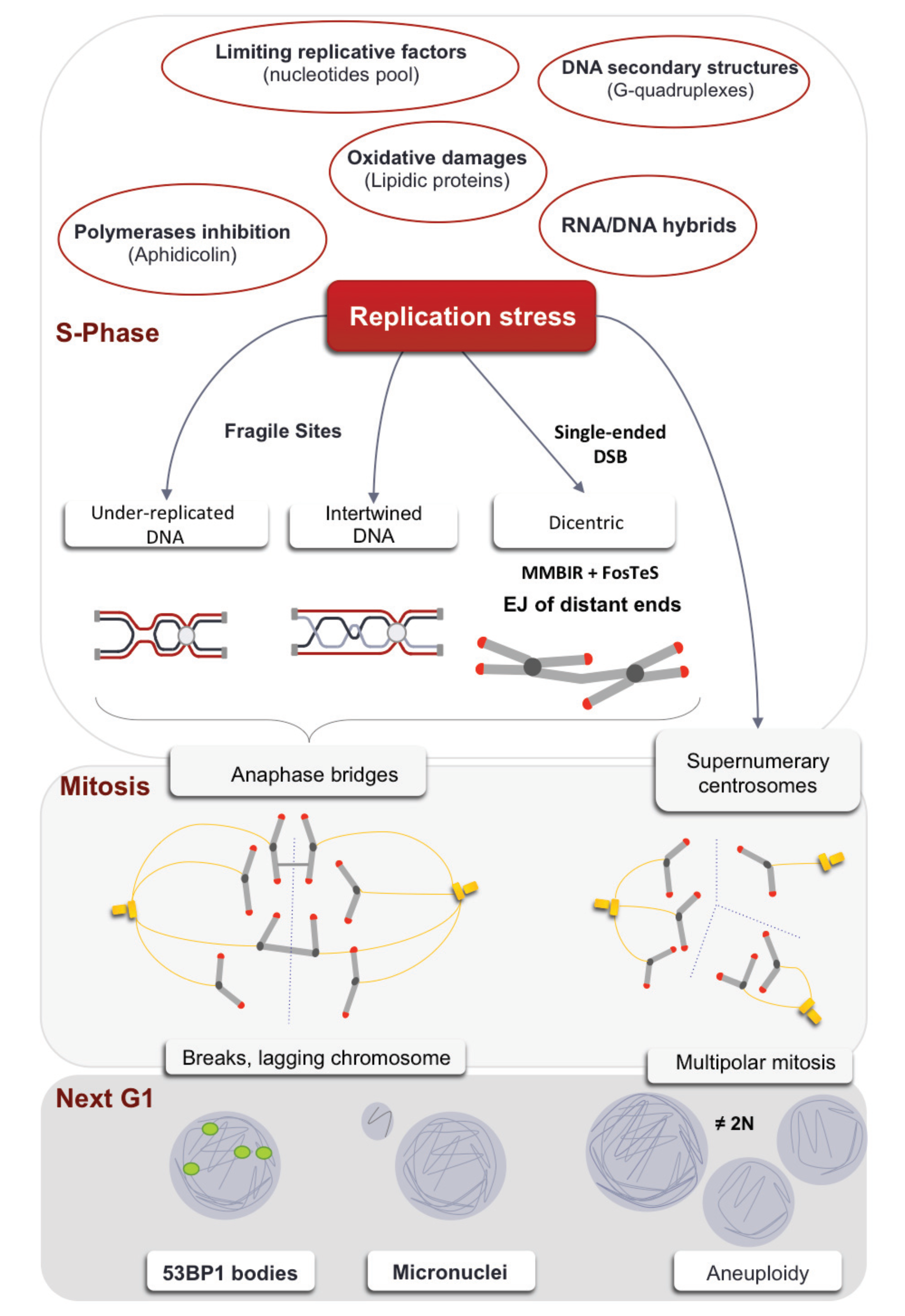 Replication stress from either endogenous or exogenous causes (red circles) leaves chromosomal segment unreplicated or interwinded leading to anaphase bridges formation. Single-ended DSB could lead to dicentric chromosome formation and thus, also, to anaphase bridge formation. Non-detected damages upon low replicative stress could be grouped in one detectable entity in G1: 53BP1 bodies and/or micronuclei. Replication stress also favors mitotic extra centrosomes and multipolar mitosis, thus amplifying mitotic catastrophes and genome instability to the whole genome.[1]